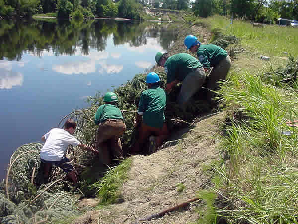 Workers along the Connecticut River as it passes through Fairlee, Vermont, United States. During the summer of 2002 a restoration project aimed at restoring a severely eroded riverbank utilized overgrown Christmas trees to create a revetment at the work site. The trees were eventually planted with various aquatic plant life to help further trap sediment and prevent erosion. See [1]